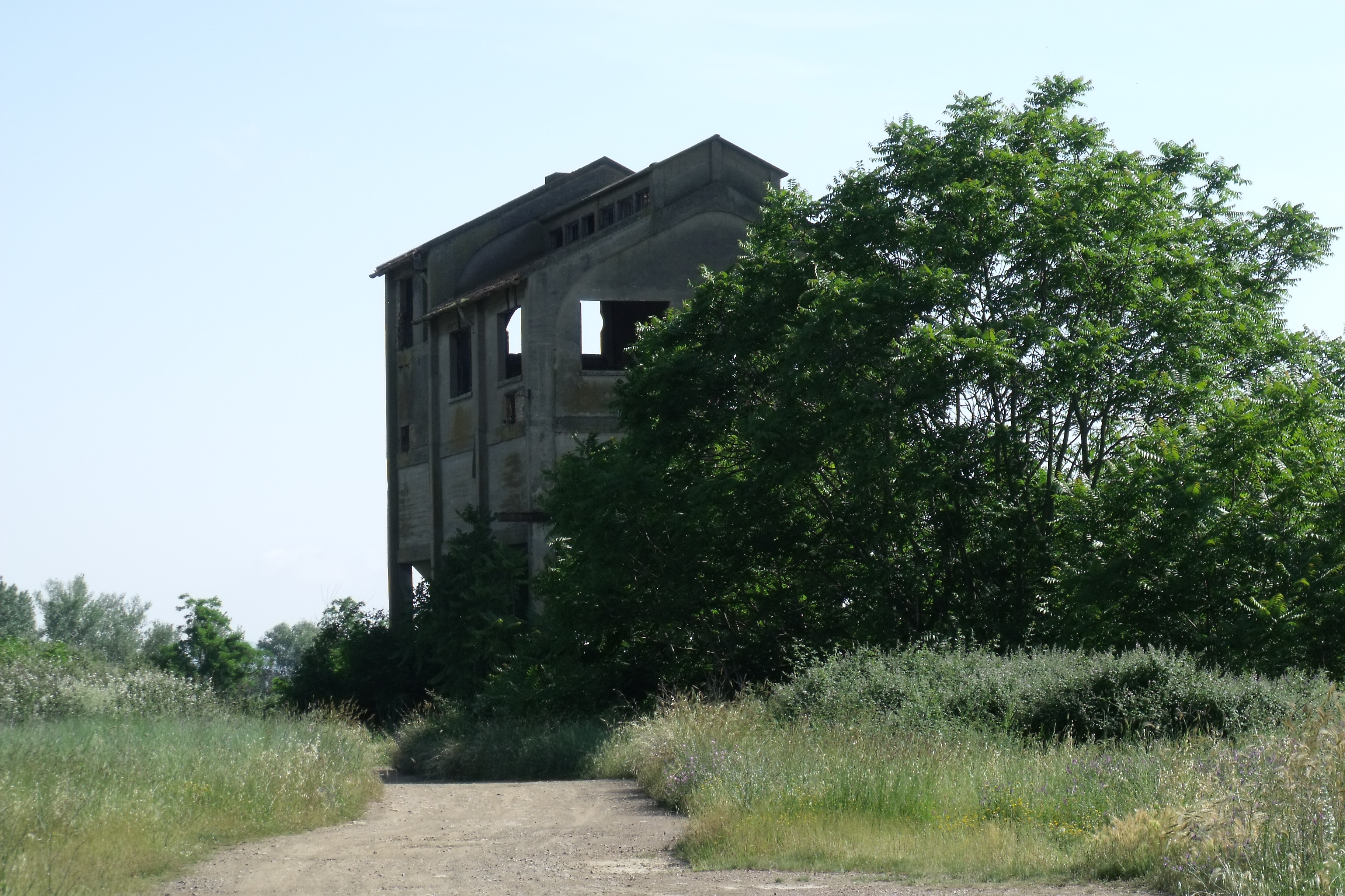 Cernita Building in Ribolla, hamlet of Roccastrada, Province of Grosseto, Maremma Area, Tuscany, Italy